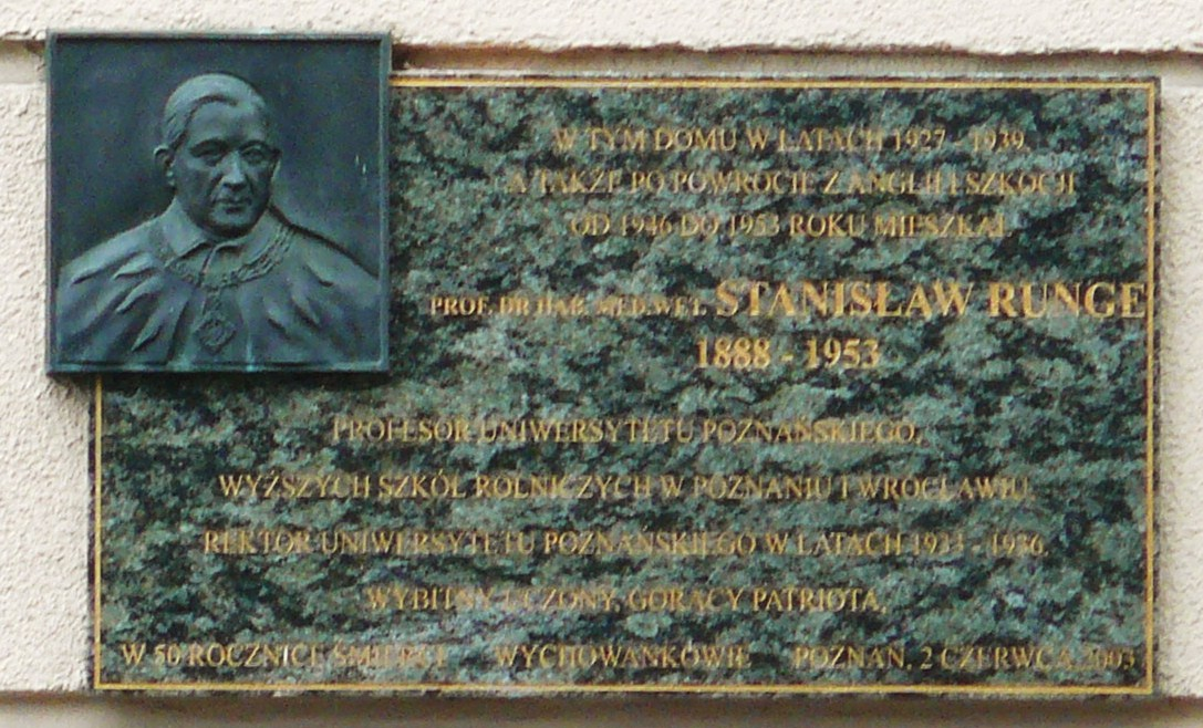 Runge-Plaque Poznan. Libelta Street.